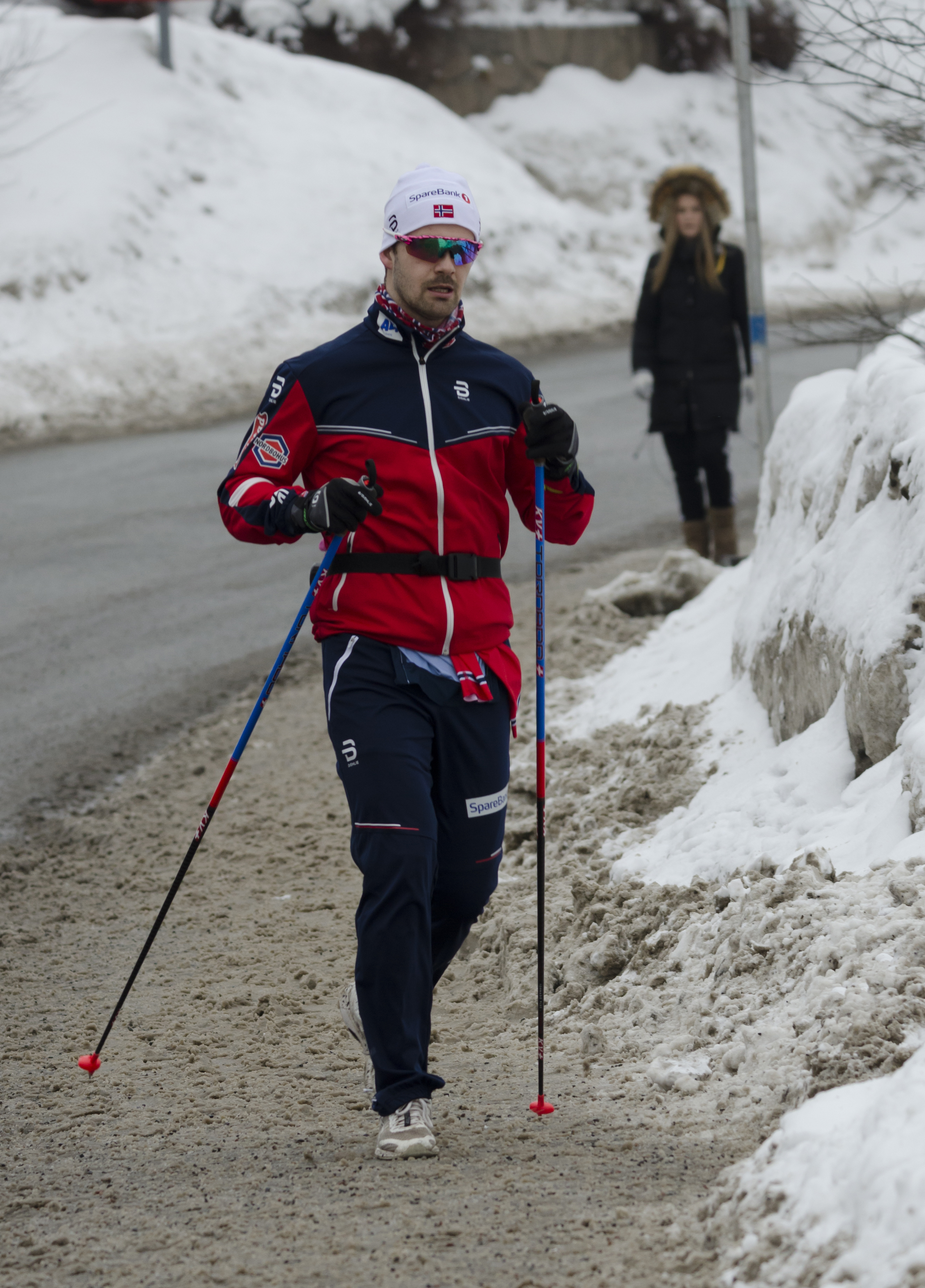 Cross-country skier Sondre Turvoll Fossli warming up before the Drammen ski sprint in 2018.